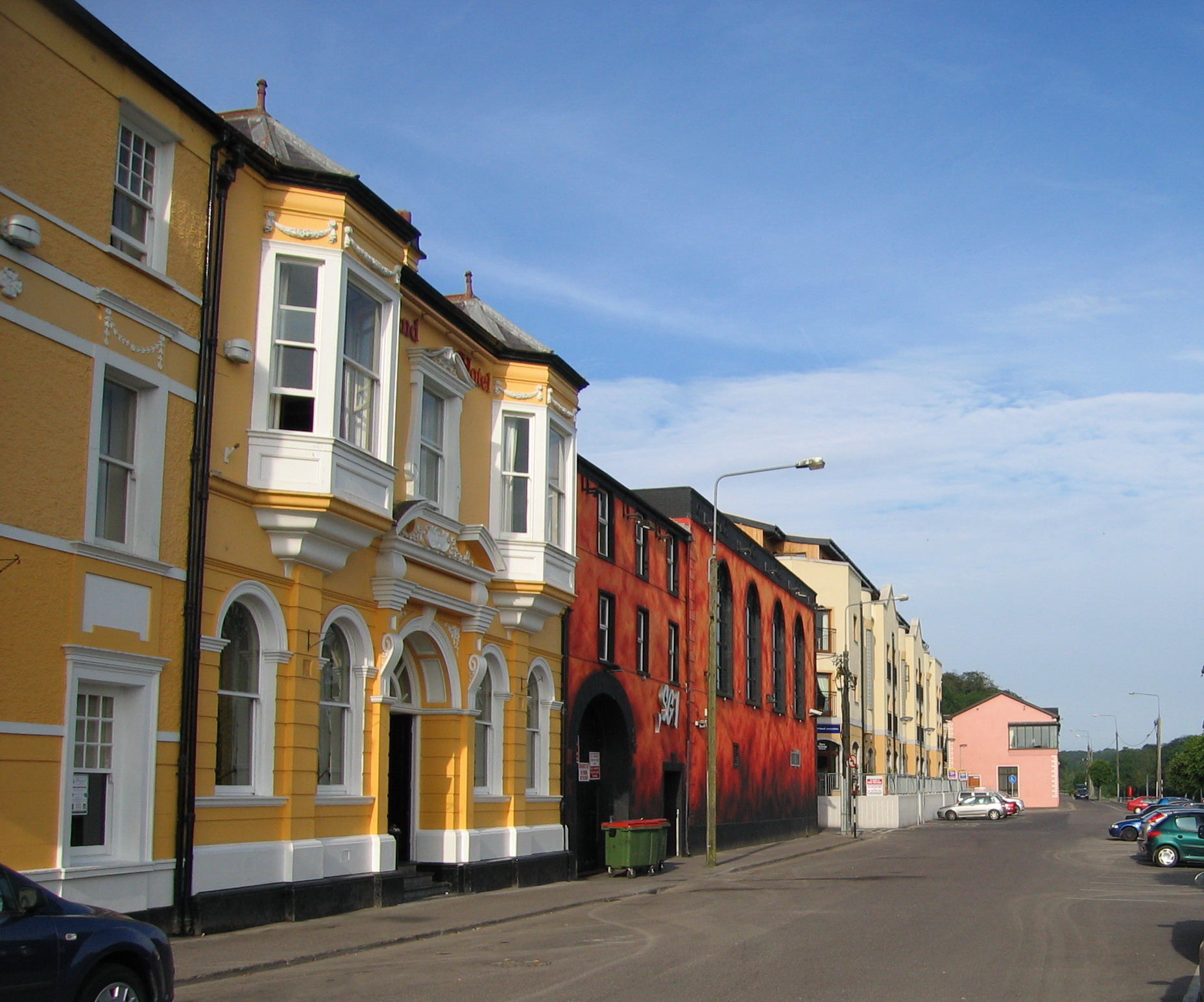 Grand Hotel Fermoy on the Southern bank of the River Blackwater (Sarah777 00:53, 27 January 2007 (UTC))